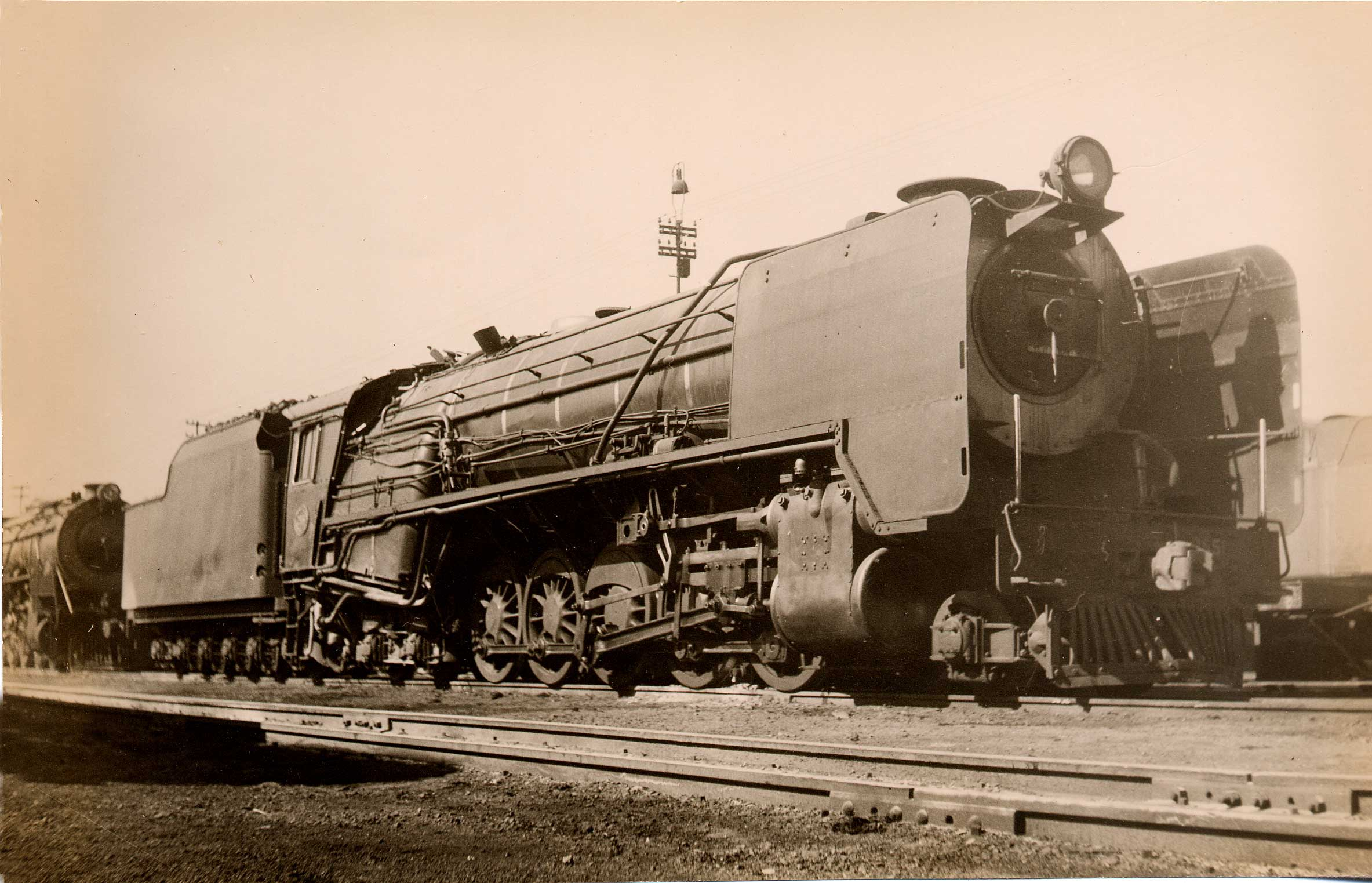 SAR Class 21 2551 (2-10-4) with smoke deflectors Location: At the old Pretoria sheds